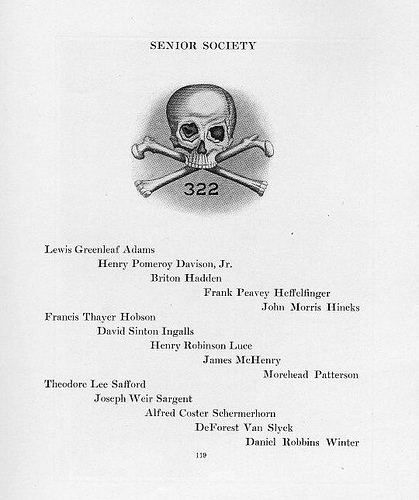 List of members of the 1920 delegation of Skull and Bones, Yale University, New Haven, Connnecticut. The list includes the two founders of TIME magazine, later Time Incorporated, Briton Hadden and classmate Henry Robinson Luce. Published in the Yale Banner newspaper, Vol. 12, The Yale Banner and Pot Pourri, 1919-1920. Courtesy of the Yale University Manuscripts & Archives Digital Images Database. Retouched by MarmadukePercy.